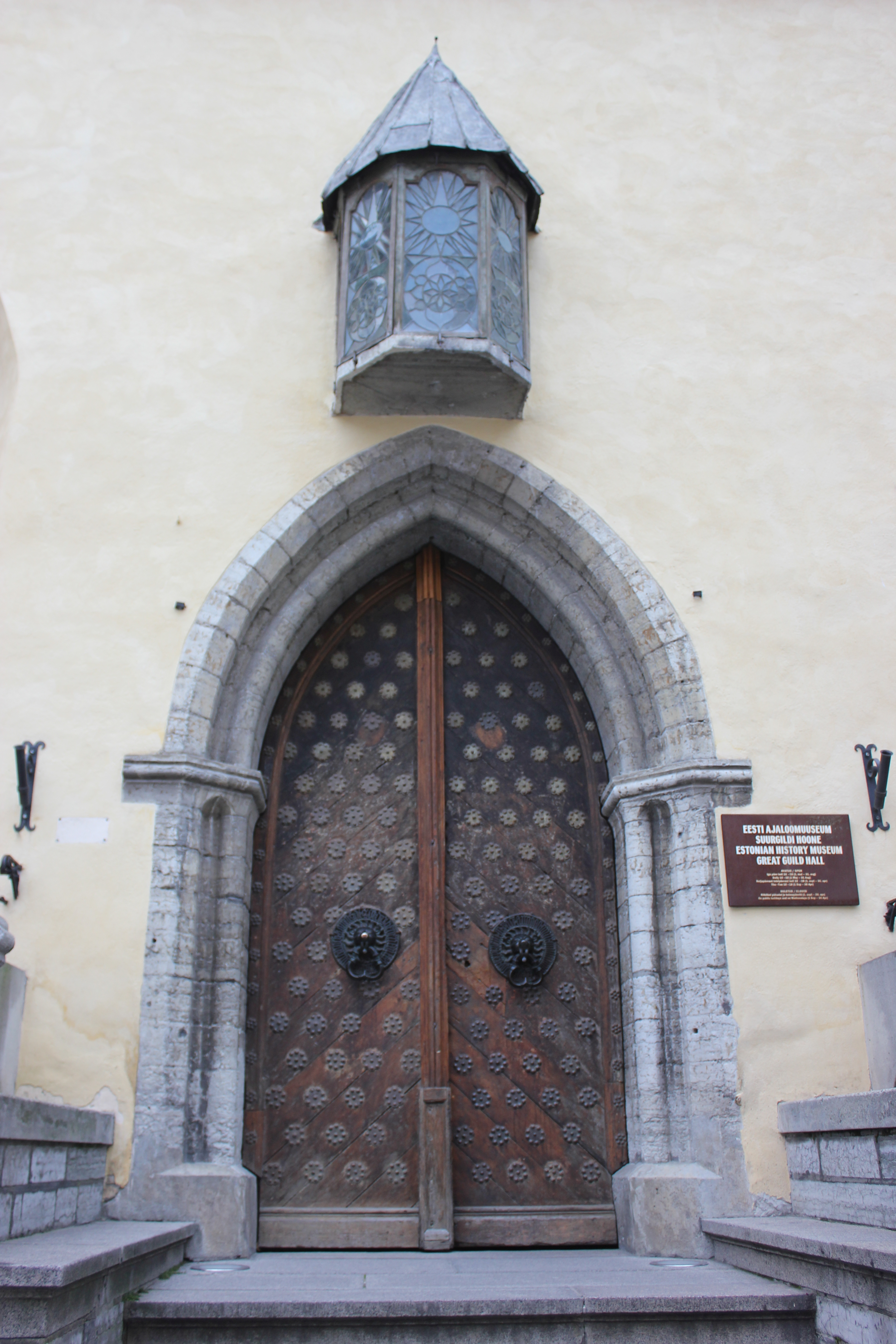 Tallinn - Great Guild Hall